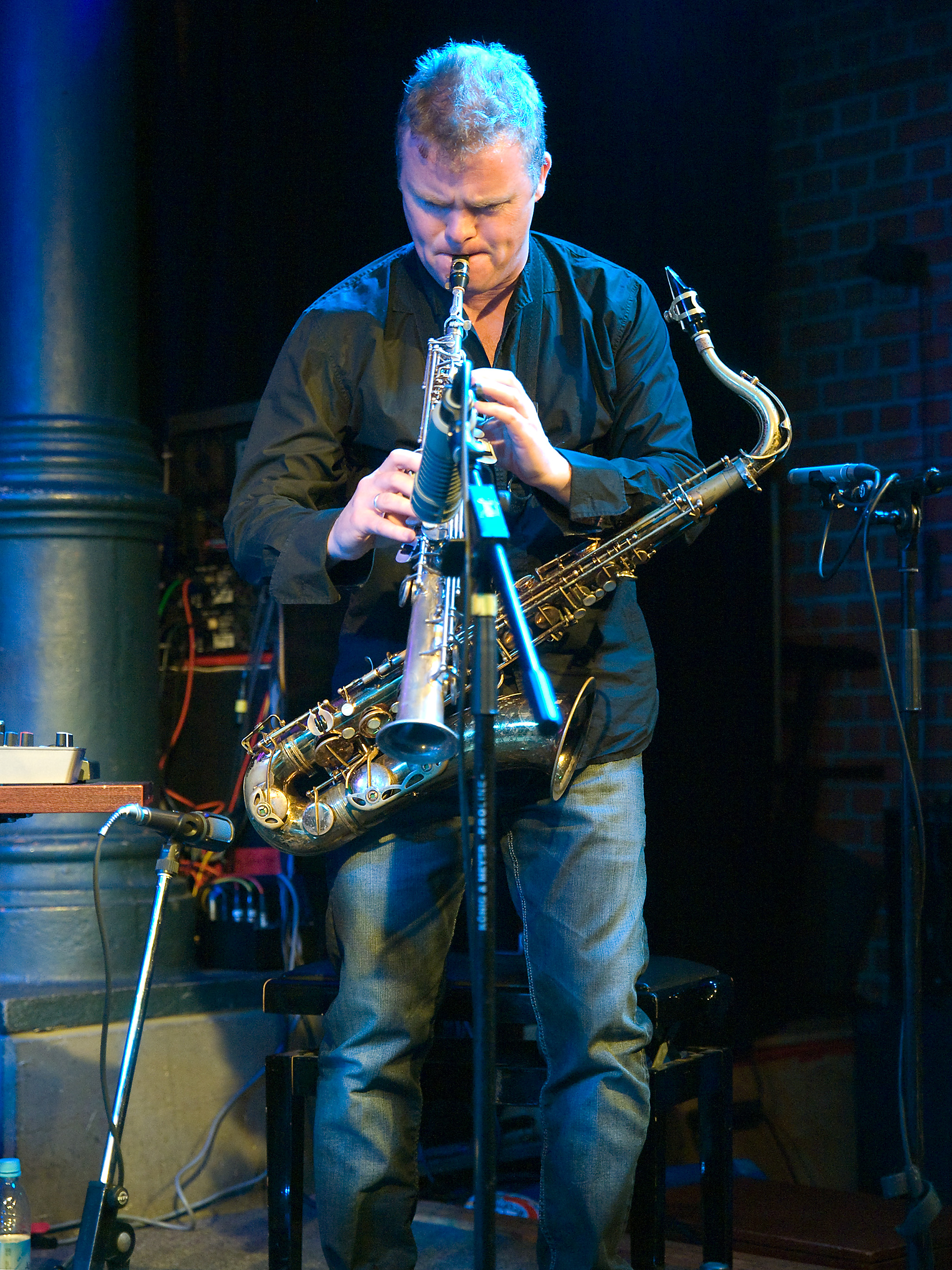 Iain Mark Ballamy, jazz saxophonist; Picture taken in Jazz Club Unterfahrt, Munich/Bavaria